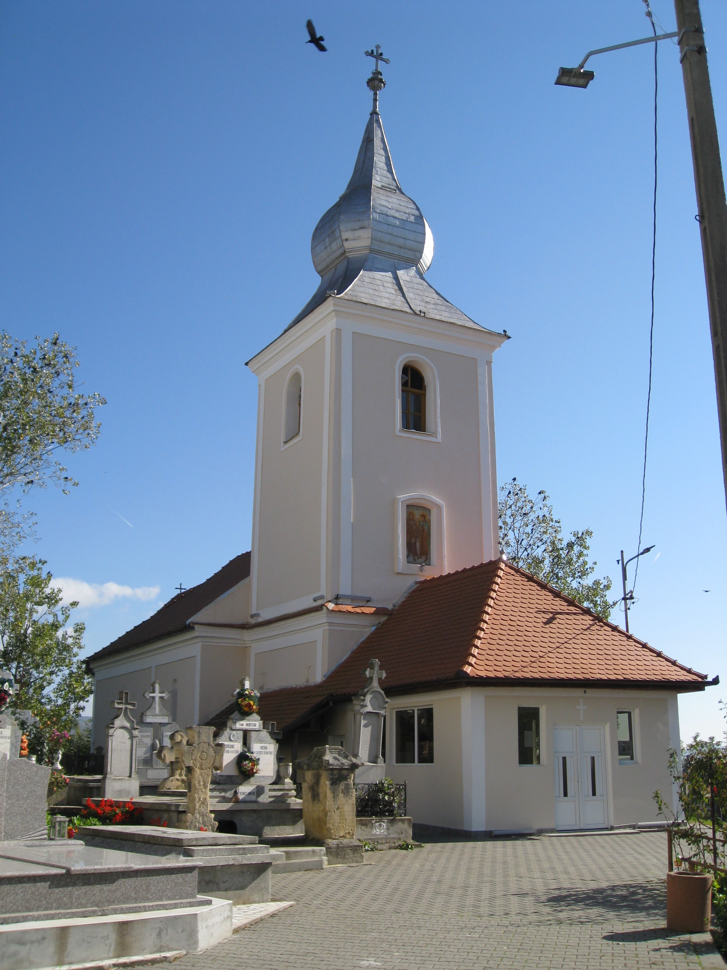 Orthodox church in Blaj, Romania 01